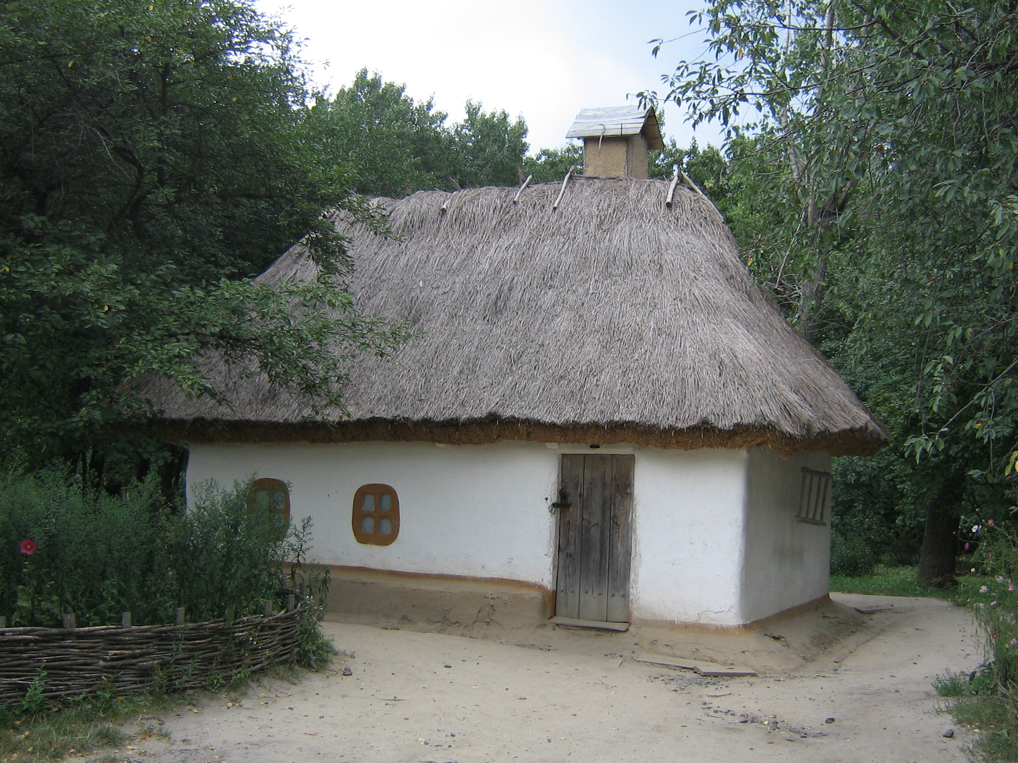 Museum of Folk Architecture and Ethnography in Pyrohiv